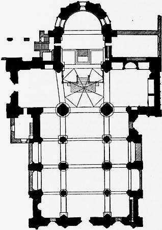 Plan of San Michele, Pavia. Illustration from 1911 Encyclopædia Britannica, article Architecture.